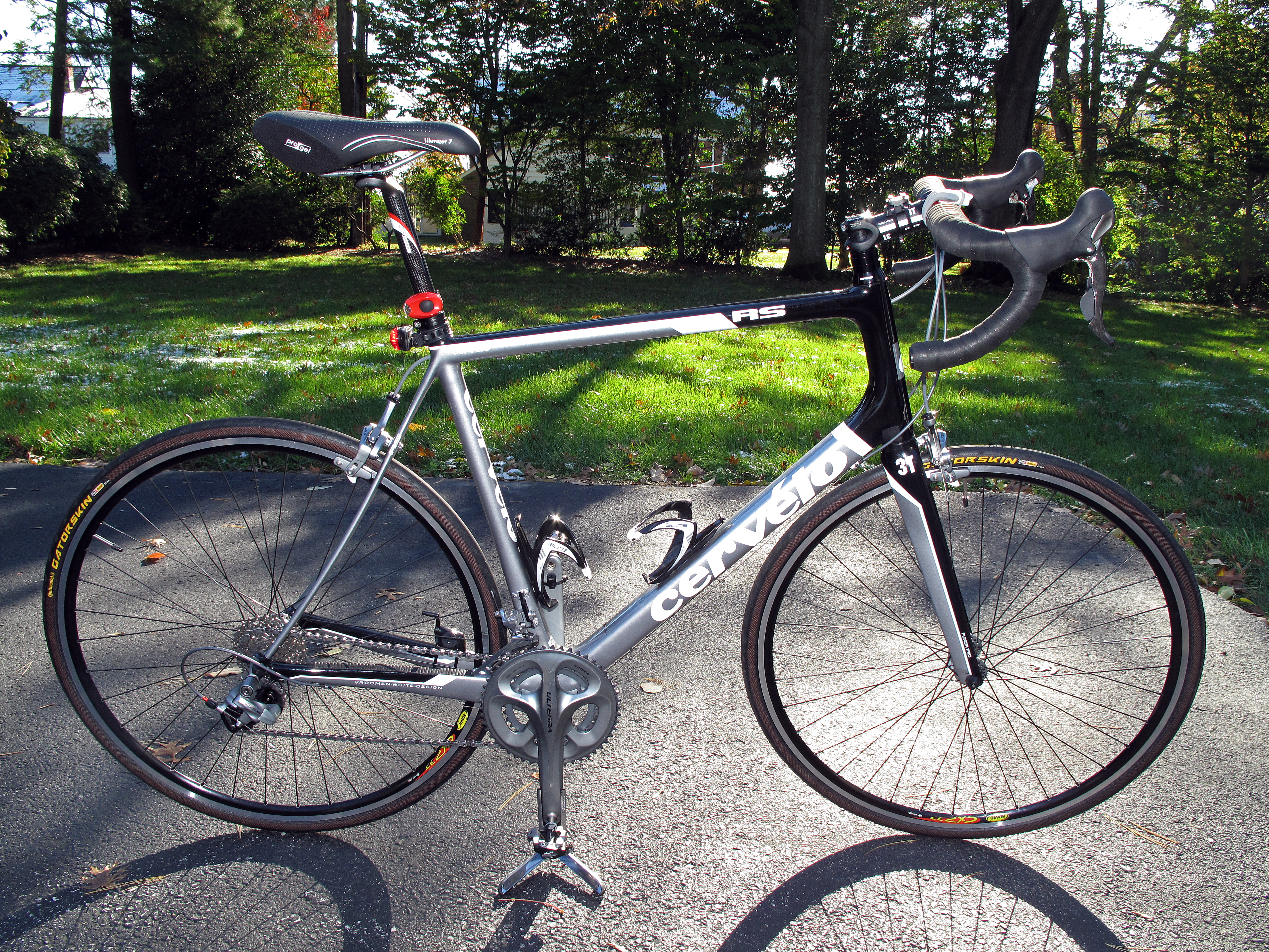 A 2010 model year Cervélo RS road bike.